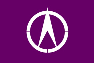 Flag of Oizumi Gunma